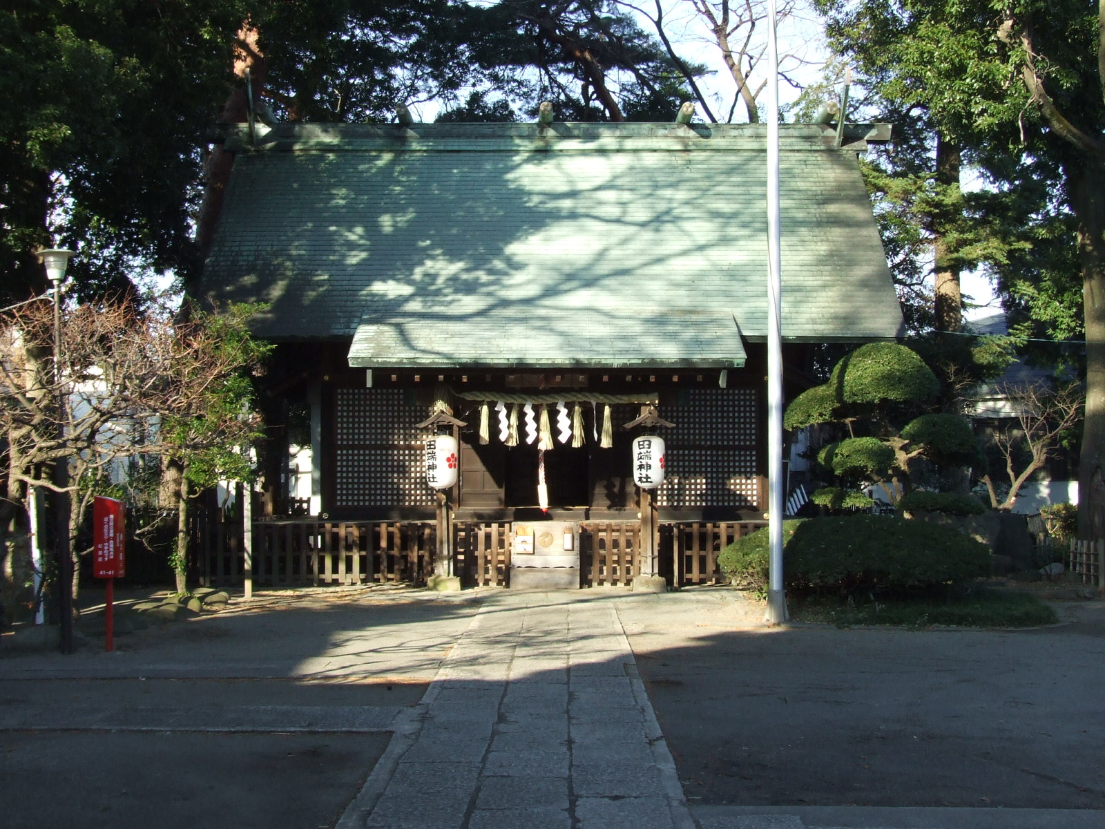 Building of a Japanese shrine